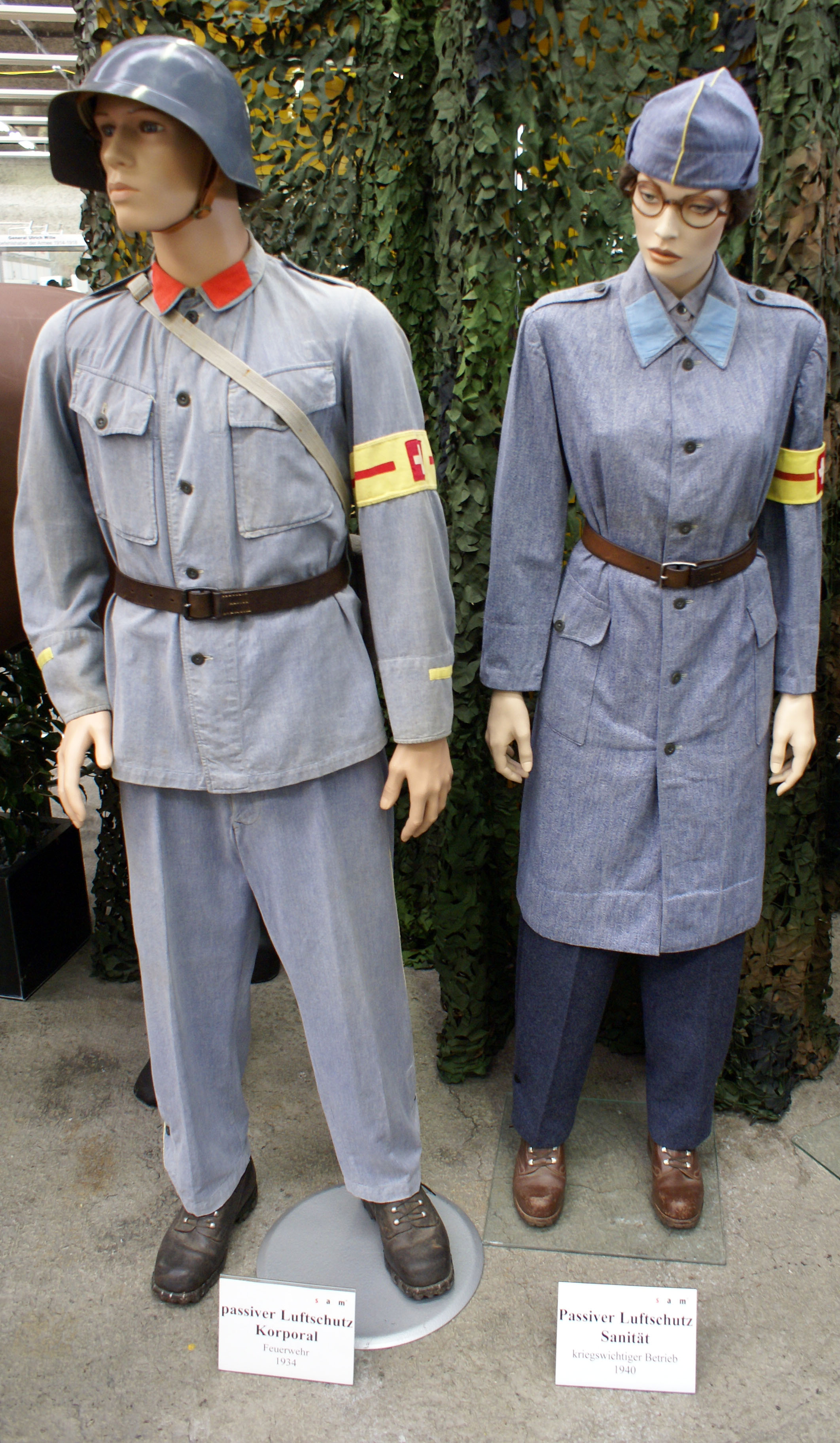 Swiss Army. Passive Air Protection uniforms. Left, firefighter corporal 1934; right, medic 1940. Swiss Army Museum.